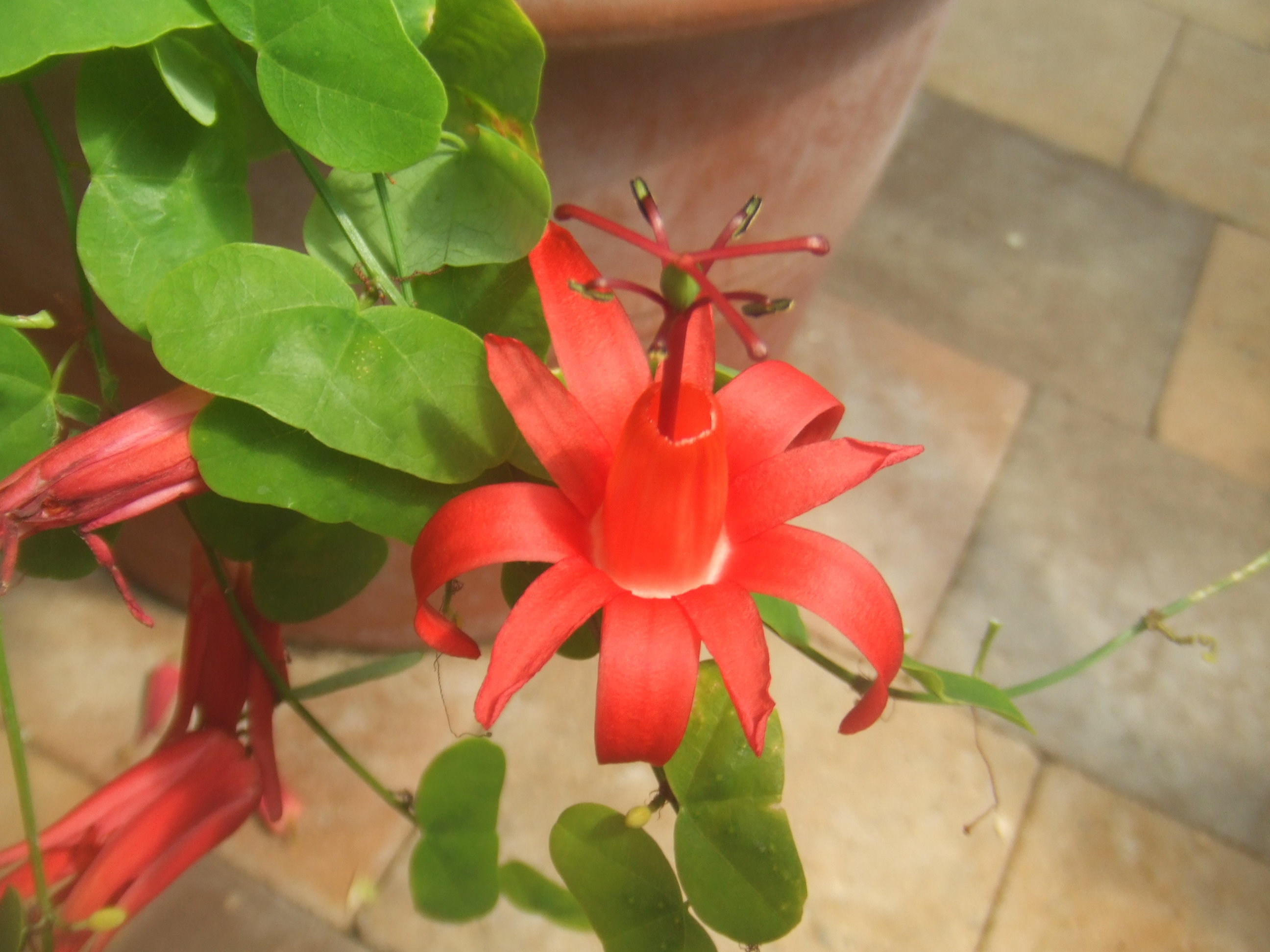 Passiflora murucuja, picture taken at Passiflorahoeve in Harskamp, The Netherlands